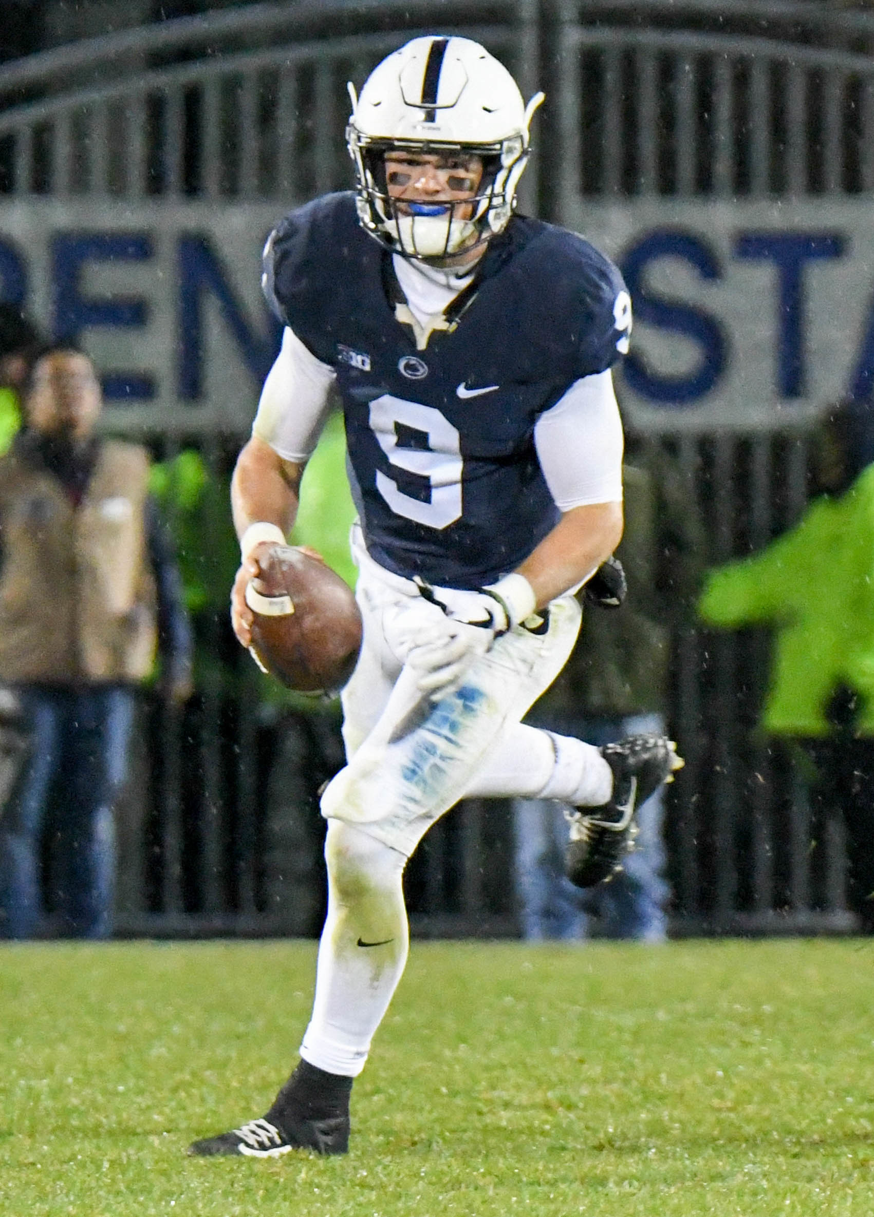 Penn State Quarterback Trace McSorley.